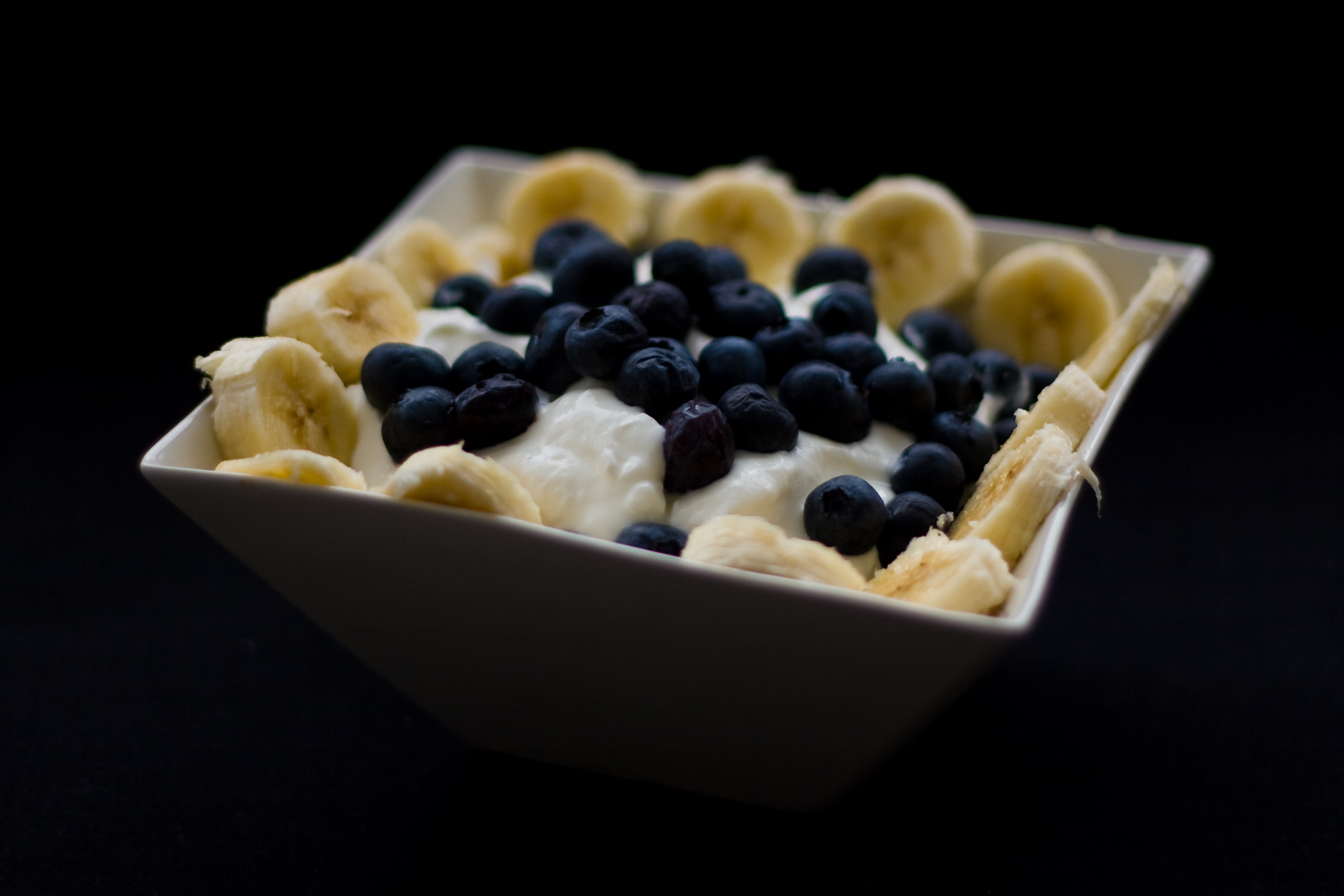 Taken in Toronto, Ontario @ March 8, 2008 On plate: Organic Cottage Cheese + Organic Sour Cream + Organic Banana + Organic Blueberries View On Black